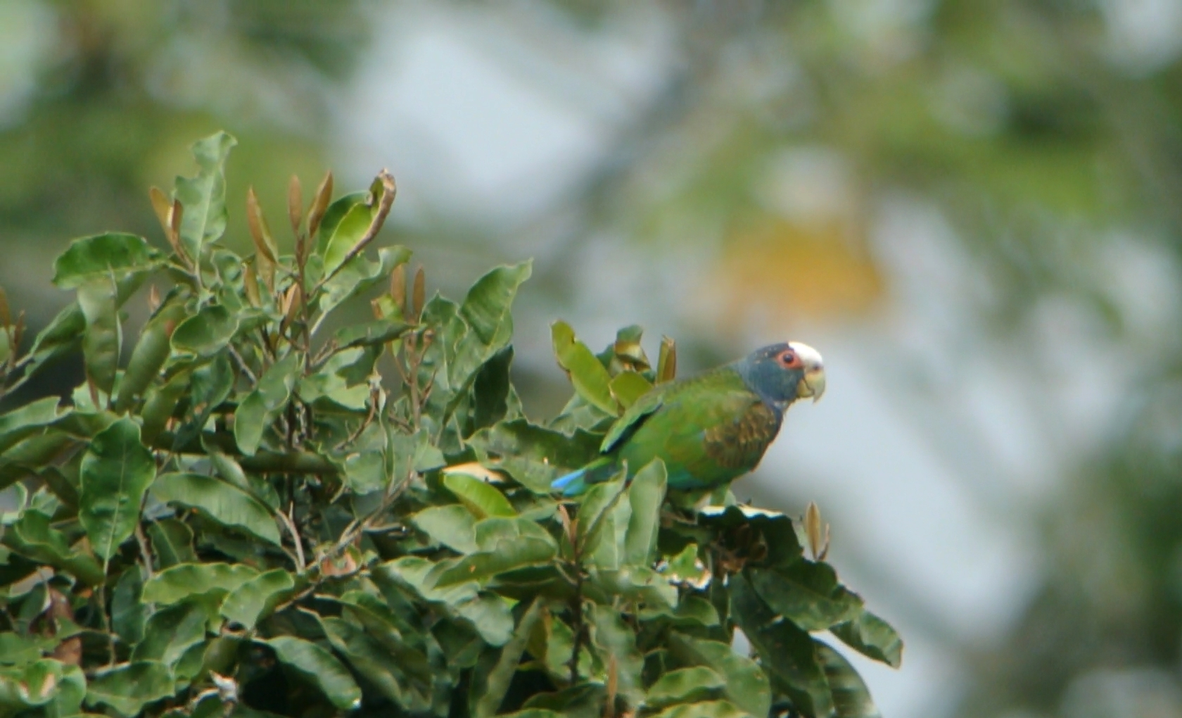 Costa Rica 2/14/16 Rancho Naturalista